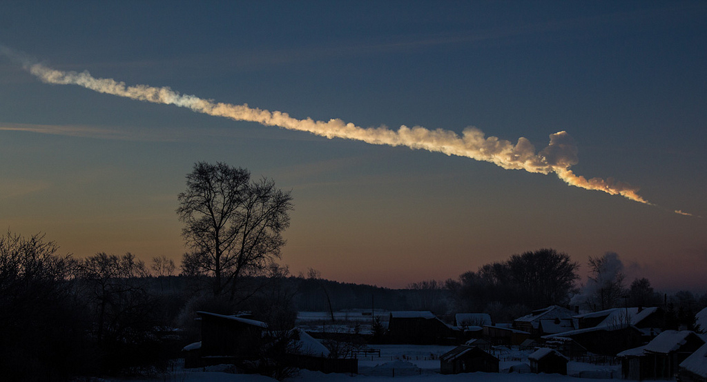 A huge meteor flew over the Urals early in the morning of 02/15/2013. The fireball exploded above Chelyabinsk city that caused damages of buildings and hundreds of people injured. This photo was taken at about 200km distance in a minute after I saw the blast. View original photo at Read my blog post